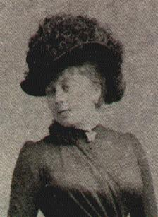 countess Maria Branicka (1863-1941) - prince Jerzy Fryderyk Wilhelm Radziwill's wife